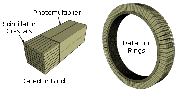 Positron_emission_tomography. This image was originally made by Damato. I trimmed some empty space and used bigger text so that it will be able to be read when used in articles without having to click on the image. I give all credit to Damato since he did all of the work, and I am releasing the image to the public domain like he did with the original image.